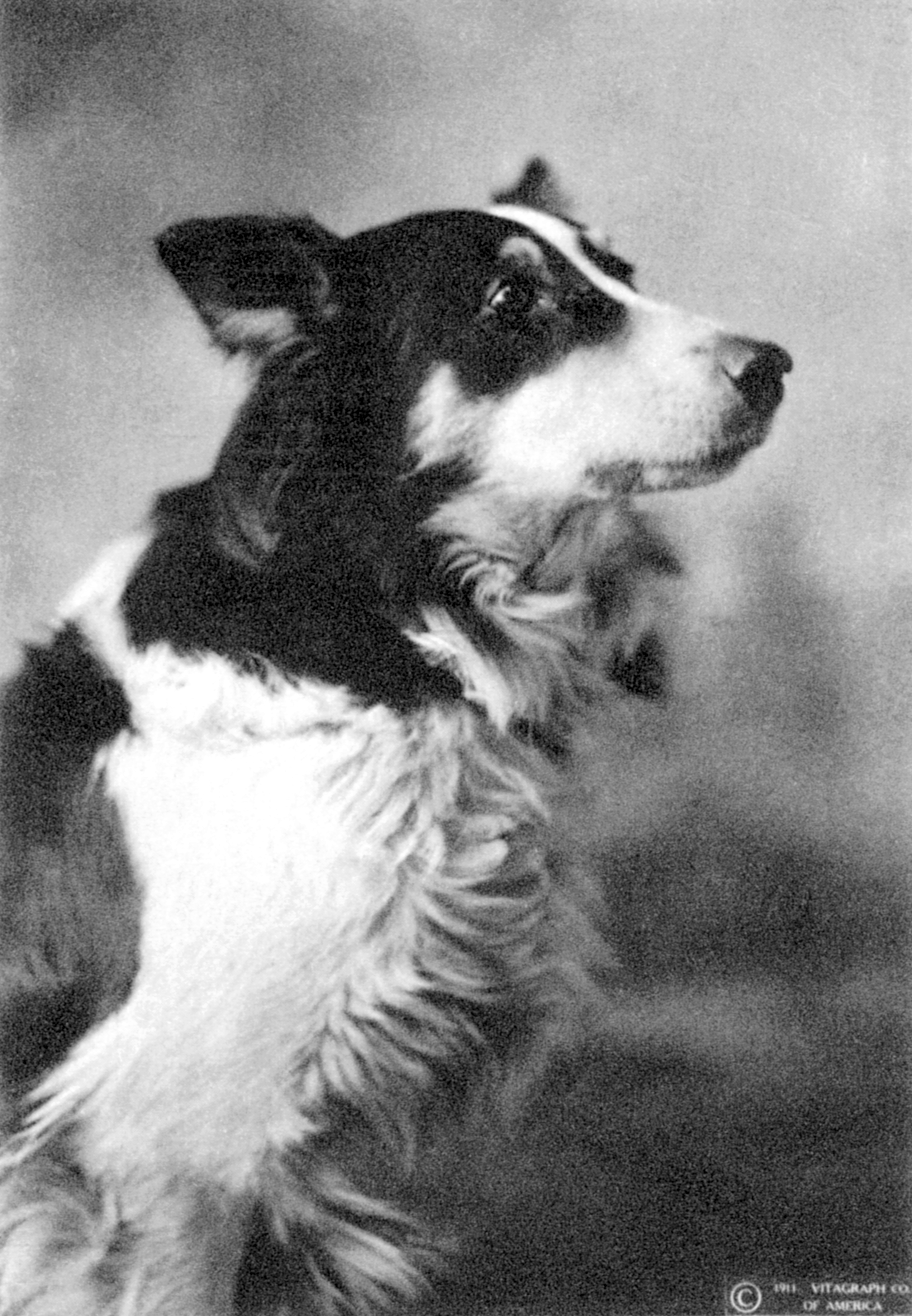 Promotional postcard of Jean, the Vitagraph Dog